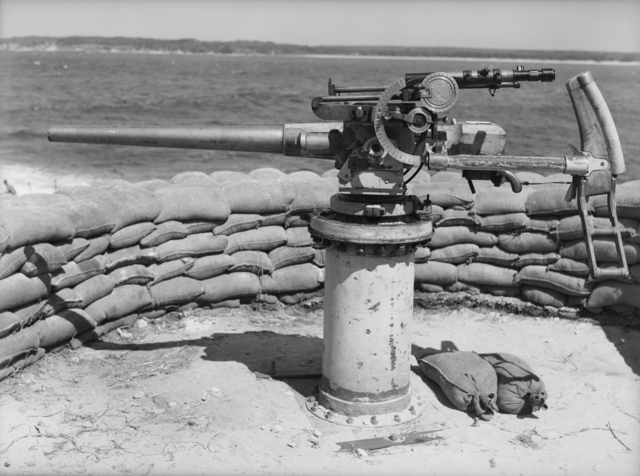 AWM caption : "SYDNEY, NEW SOUTH WALES, AUSTRALIA. 1942-01-24. SIDE VIEW OF A QUICK FIRING, 3 POUNDER HOTCHKISS GUN, SHOWING THE ROCKING BAR SIGHT."